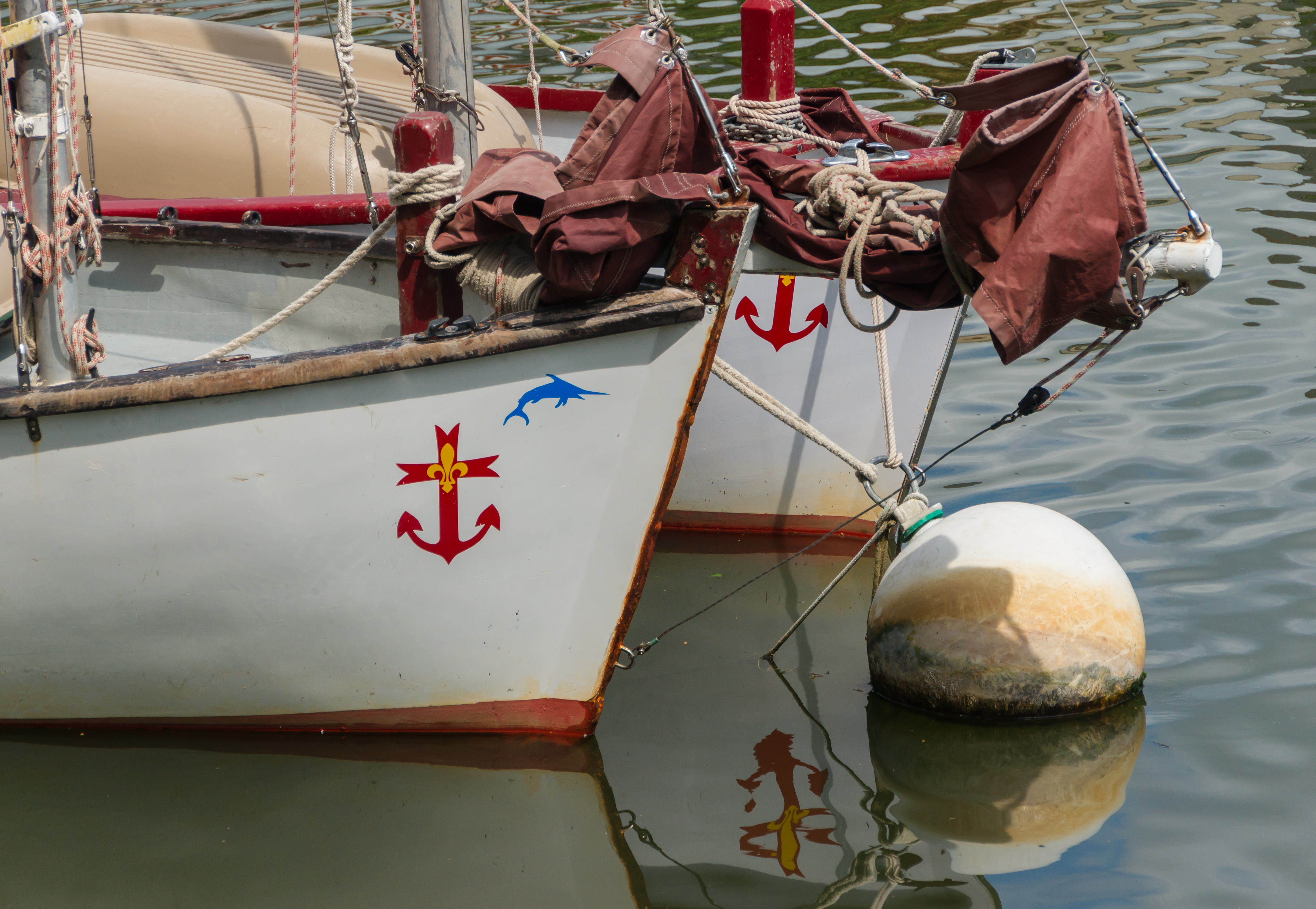 Buoy, bow of sailing boats of Sea-Scouts, La Rabine, Vannes, Morbihan, France.